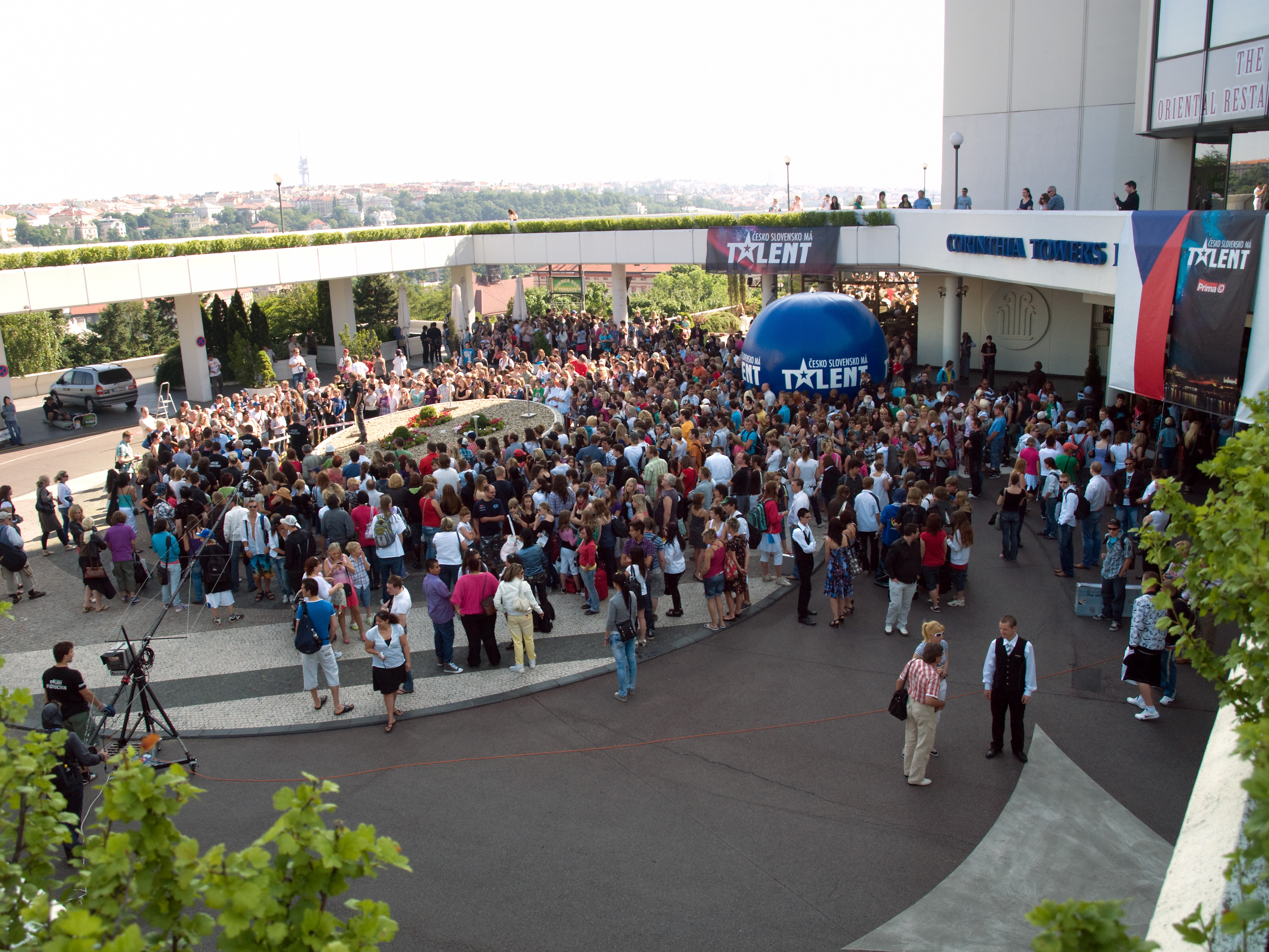 Casting for Czecho-Slovakia's Got Talent in Prague